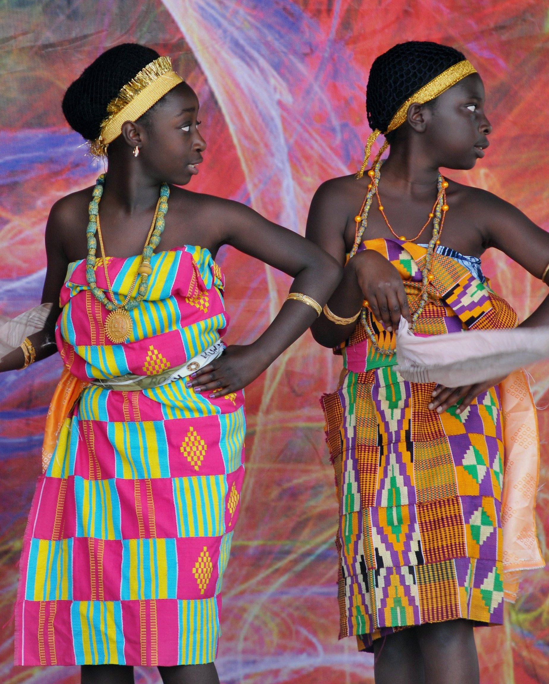 Ashanti Cultural Adowa Dance Group from Ghana, Surrey Fusion Festival 2010 The Surrey Fusion Festival was an free outdoor event on 17th-18th July 2010 in the town of Surrey in the province British Columbia of Canada.